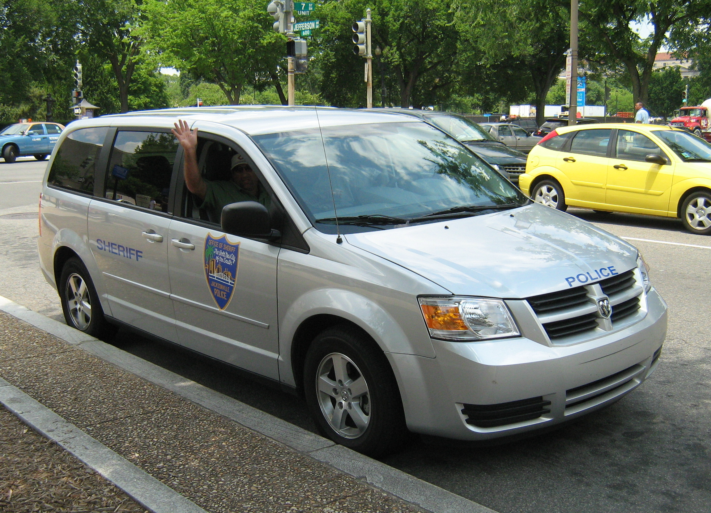 Dodge minivan in Washington DC - marked police and sheriff of Jacksonville, Florida